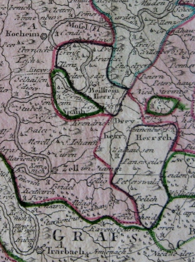 Portion of a late 18th century map showing the herrschaft (lordship) and town of Beilstein along the Moselle River. Also part of Beilstein is the non-contiguous area to the southeast inscribed "Herrsch." Along with the castle of Winneburg ("Winnenburg") located immediately above Cocheim ("Kocheim") in the top-left corner of the map, Beilstein formed the twin herrschaft of Winneburg and Beilstein, which had belonged to the Metternich family for generations until it was dissolved in the early 19th century. The areas in pink and blue are parts of the Electorate of Trier (Upper Trier in pink and Lower Trier in blue) while the several areas in green are territories belonging to the County of Sponheim. Cropped from a map of the Electorate of Trier by Homann Heirs published in 1789 ("Charte das Erzstift u. Churfürstenthum Trier". Nürnberg, Homann Erben, 1789).